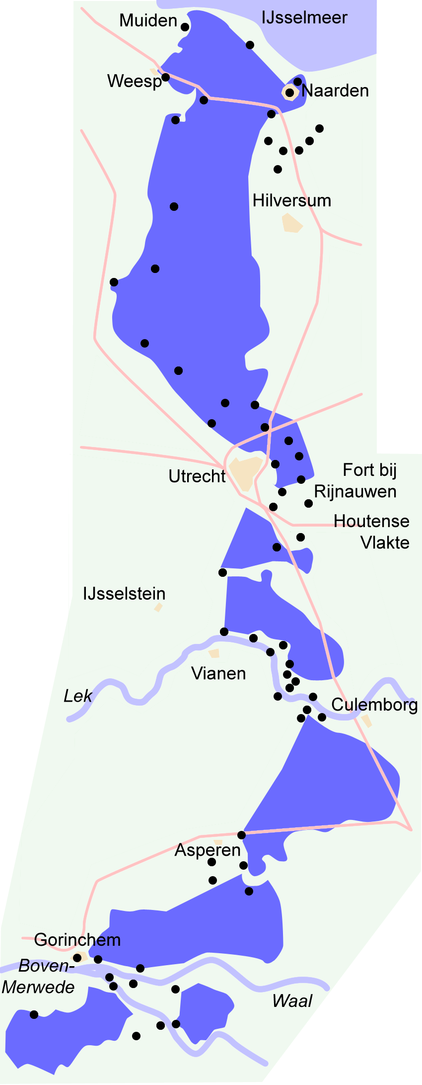 "Nieuwe Hollandse Waterlinie" (military defensive line) in the Netherlands. Disclaimer: The exact location of the forts and inundation areas may differ from reality to a slight extent. Made by Niels Bosboom.